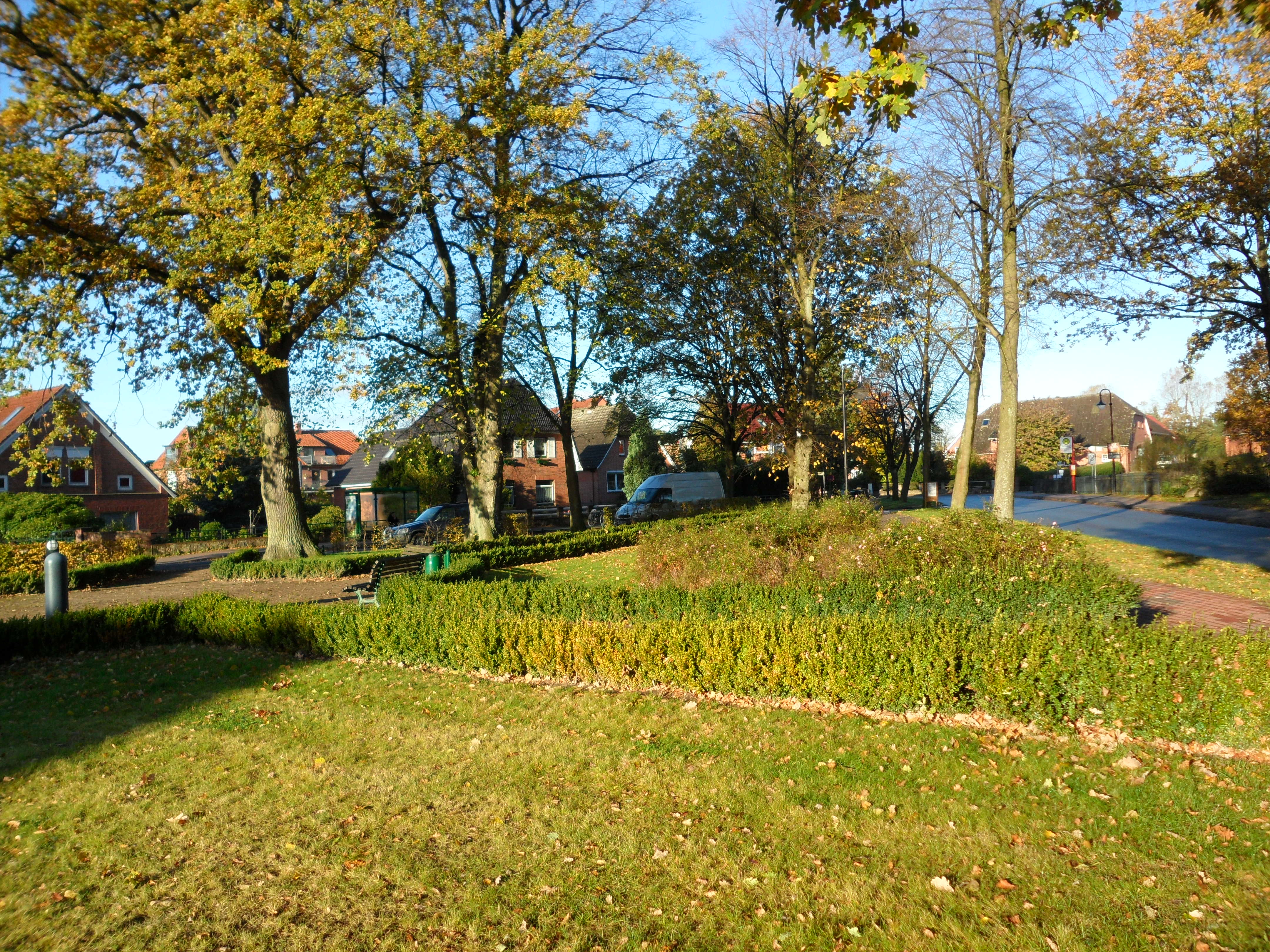 City center of Stellau (Barsbüttel)